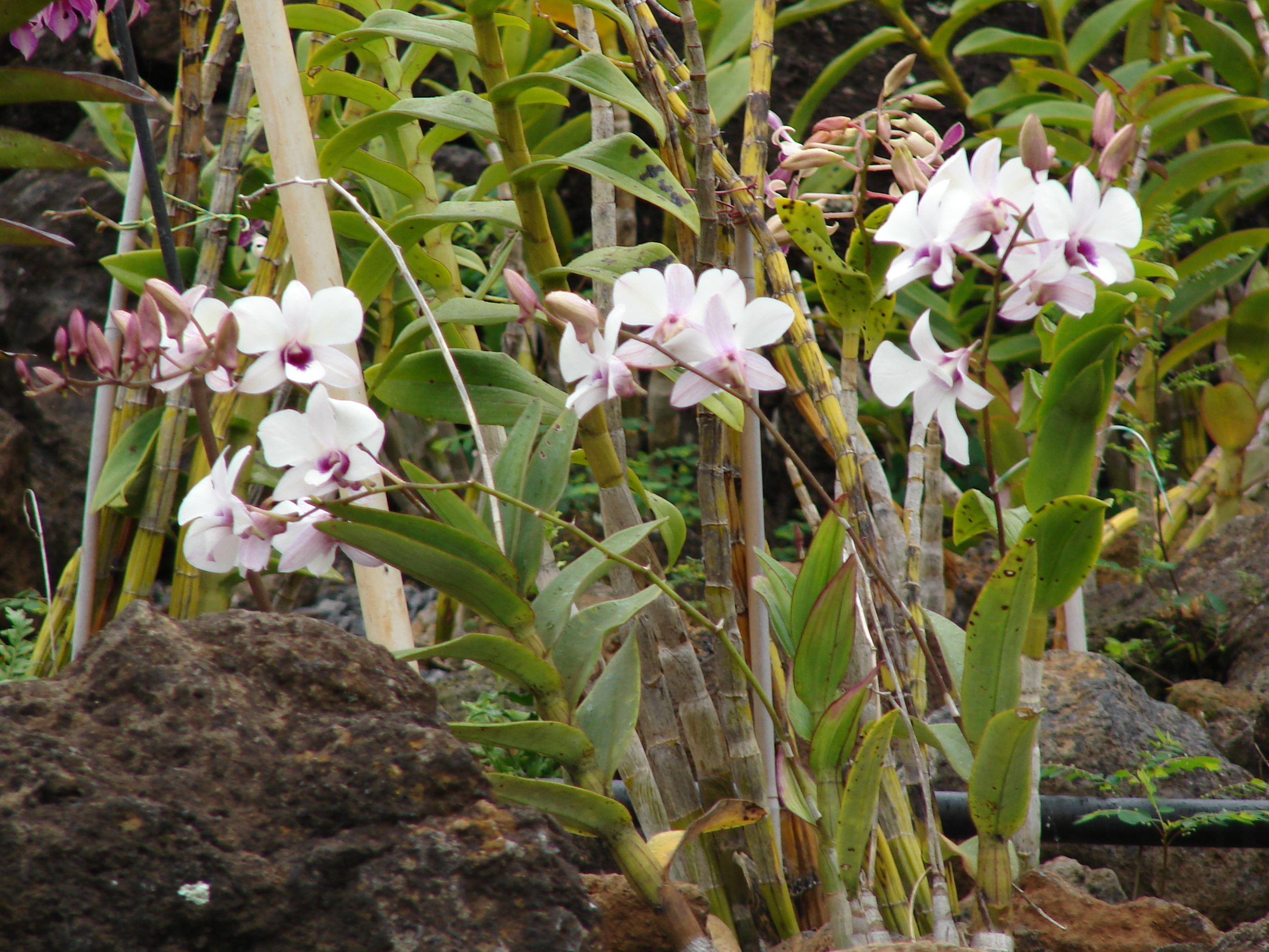 Unknown orchidaceae (flowers and leaves). Location: Maui, Pulehu